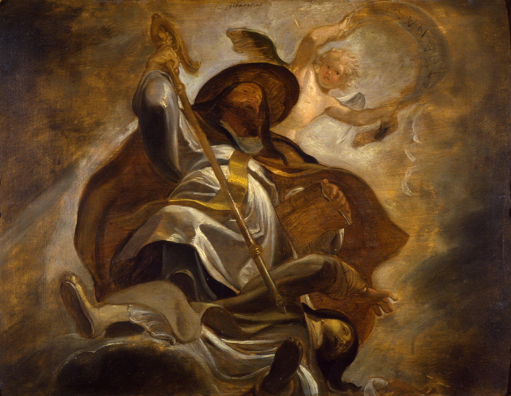 St. Athanasius defeating Arius